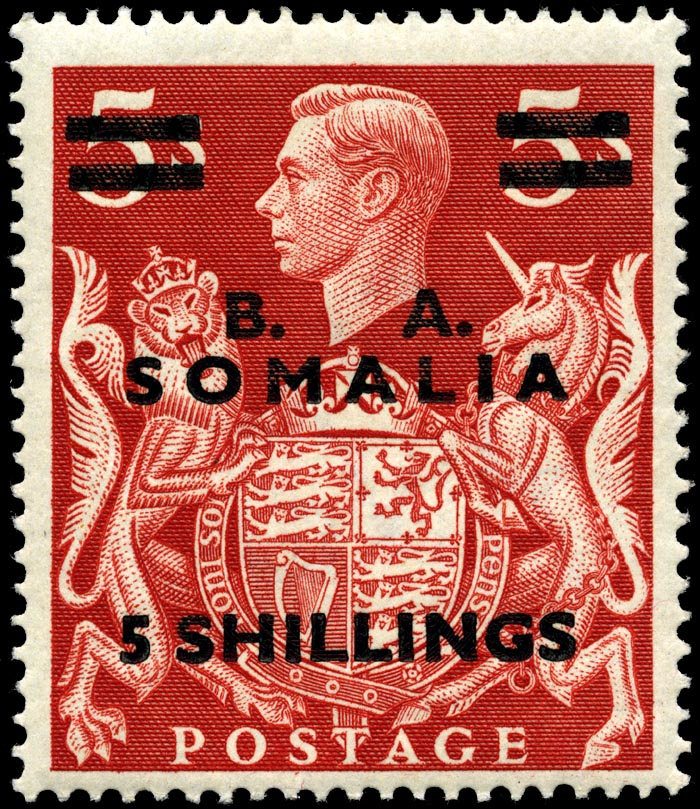 United Kingdom British occupation of Italian Somalia 5-shilling stamp of 1950